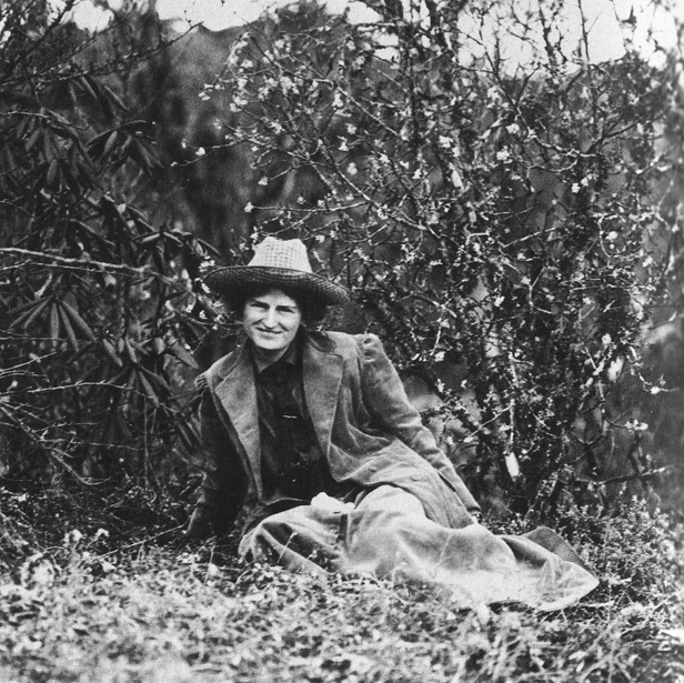 Mary Beebe aka Blair Niles in 1910, on an expedition with William Beebe.